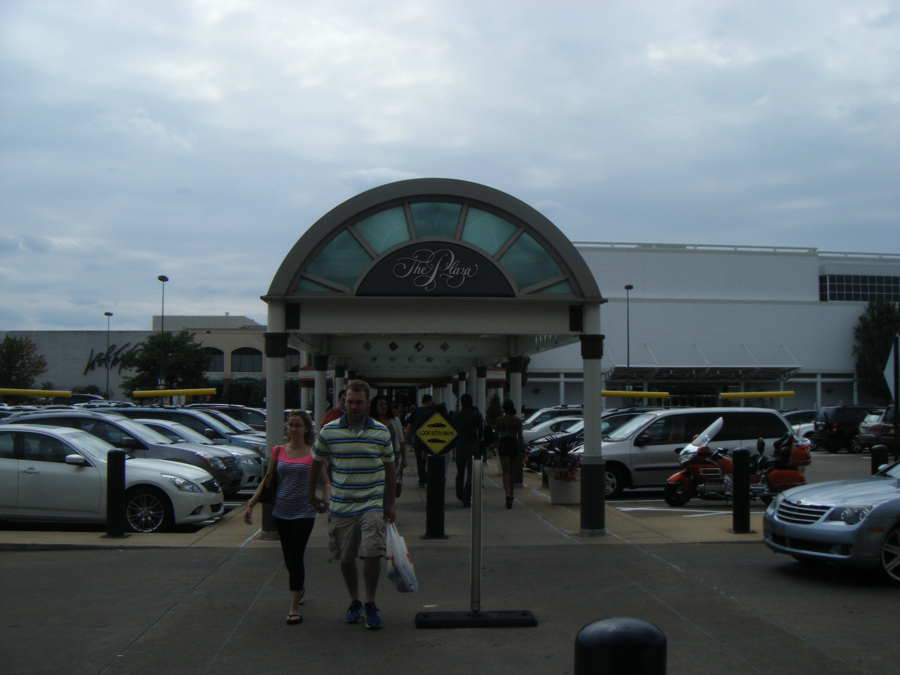 The walkway from The Court to The Plaza at the King of Prussia Mall in King of Prussia, Pennsylvania. This walkway was replaced with an updated glass canopy in 2016 as part of the expansion project connecting The Court to The Plaza.